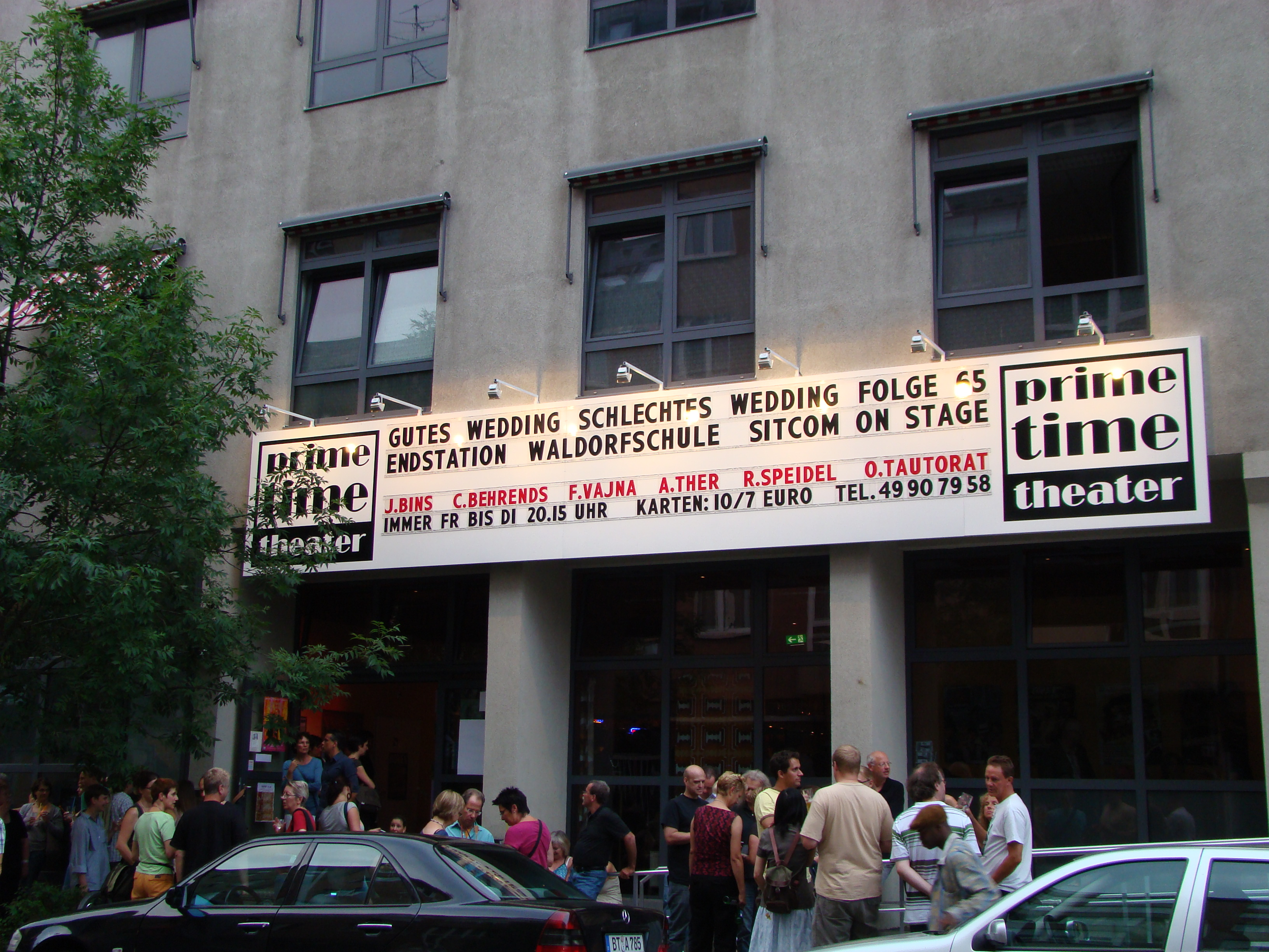 theater from the street